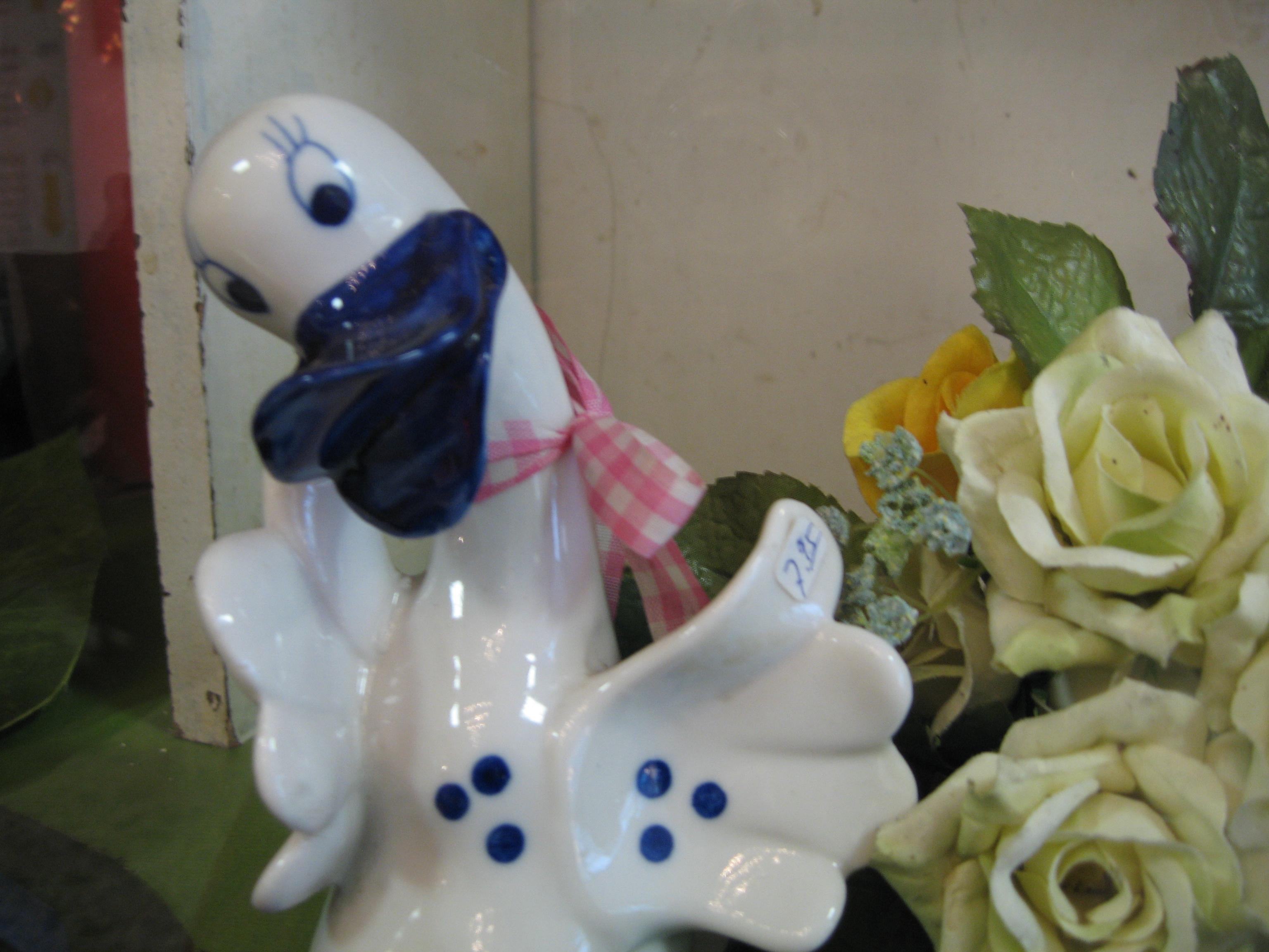 Kitsch as Kitsch can be, own work, public domain